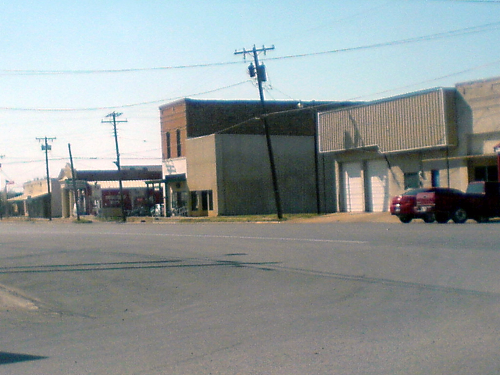 Business in central Newcastle.